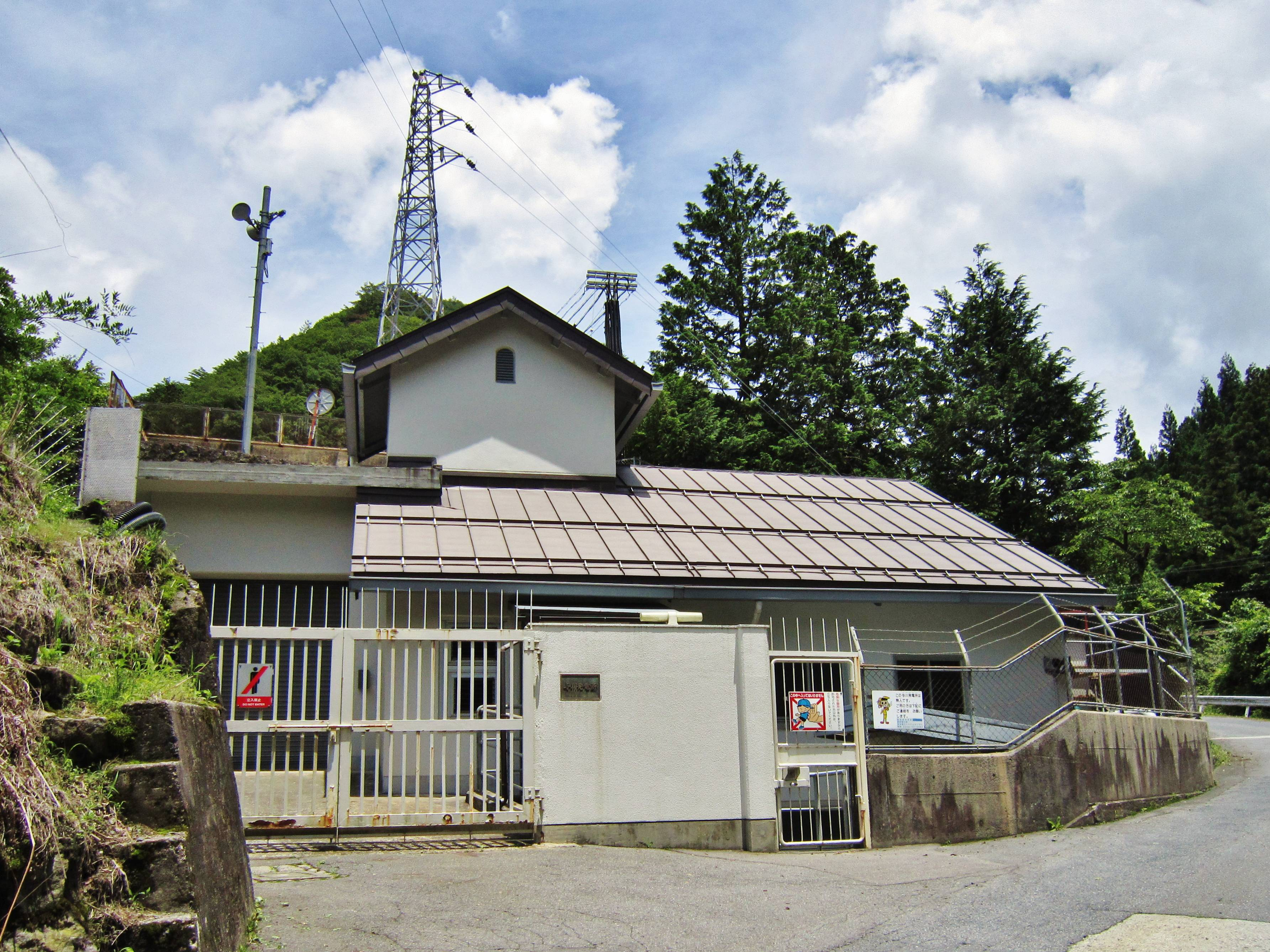 Yogawa power station.